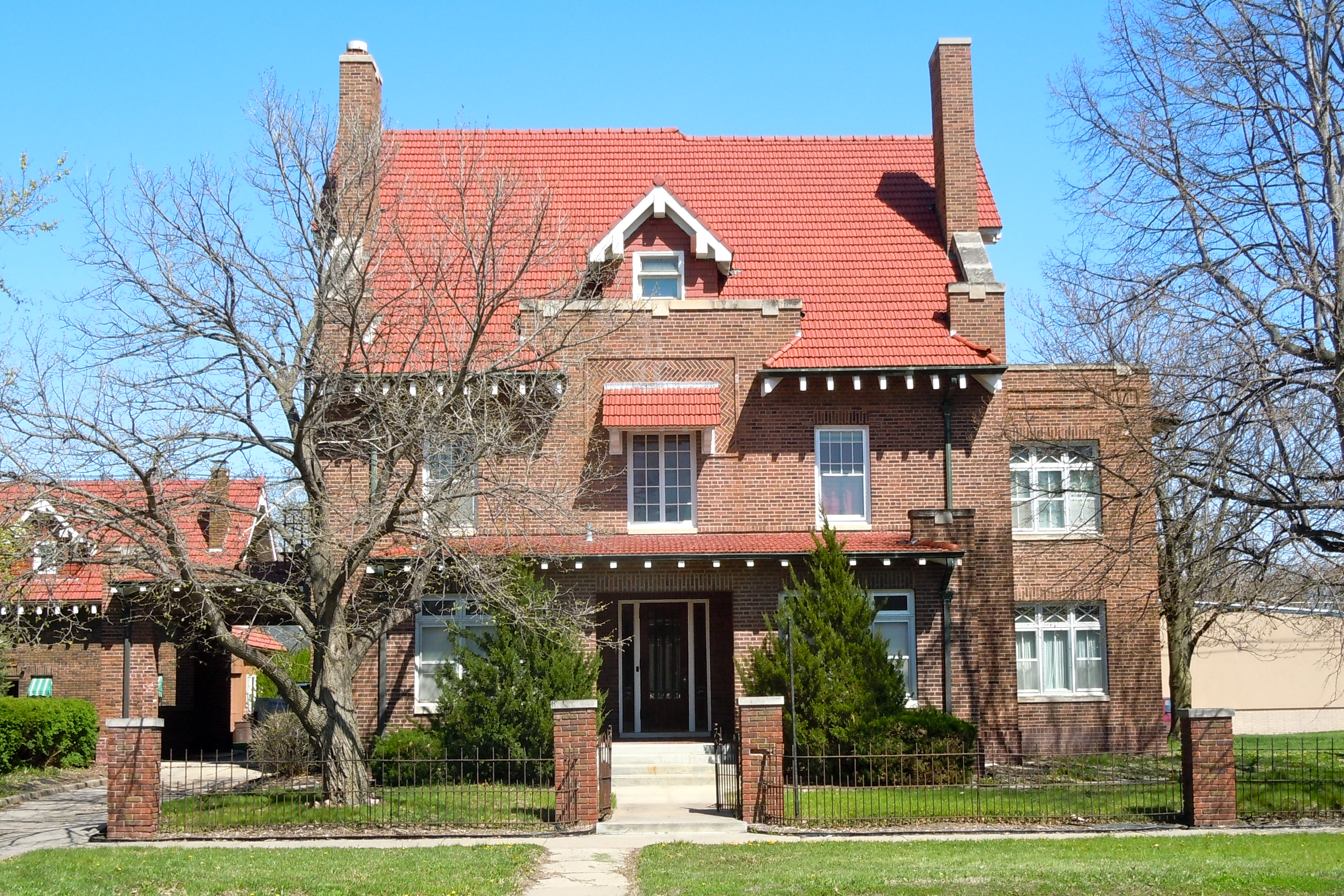 John and Philomena Sand Zimmerer House on the NRHP since February 25, 1993. At 316 N. 6th St., Seward, Seward County, Nebraska